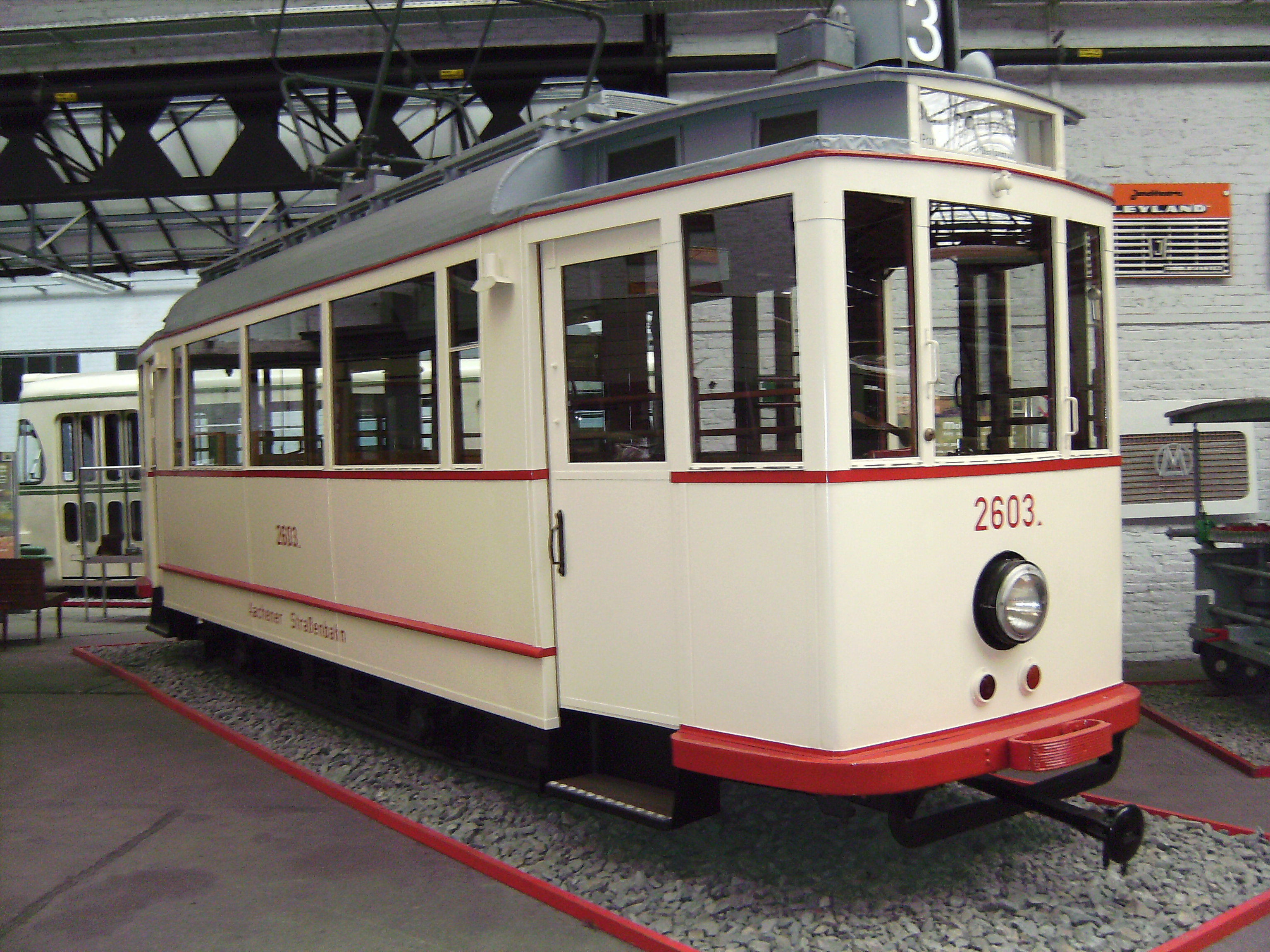 Tram from Aachen (Germany) in the public transport museum of Liège (Belgium)